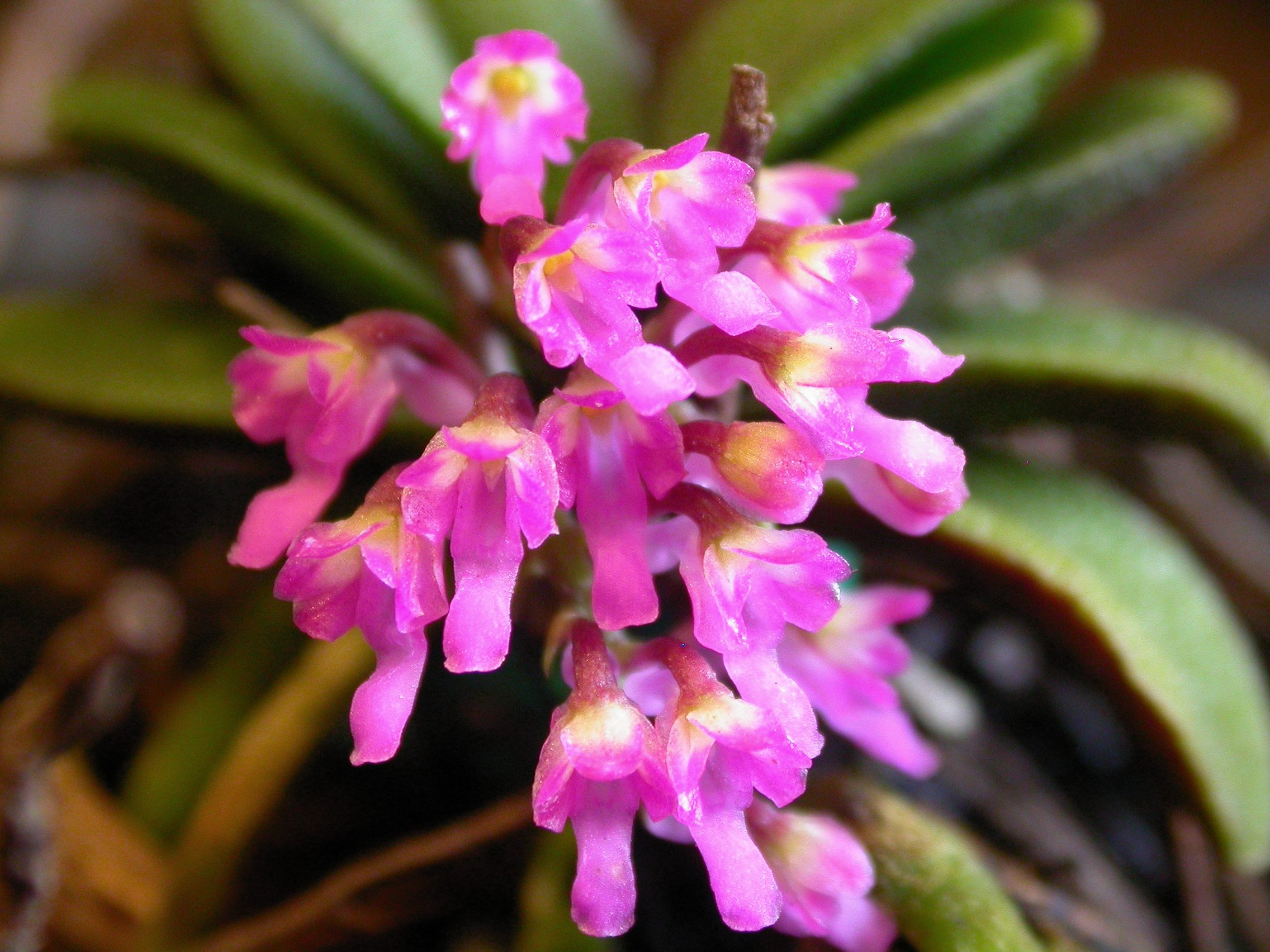 Schoenorchis fragrans